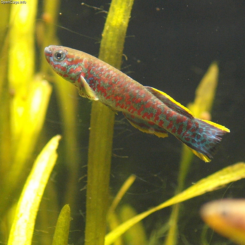 Guatemalan killifish, Fundulopanchax gardneri or nigerianus